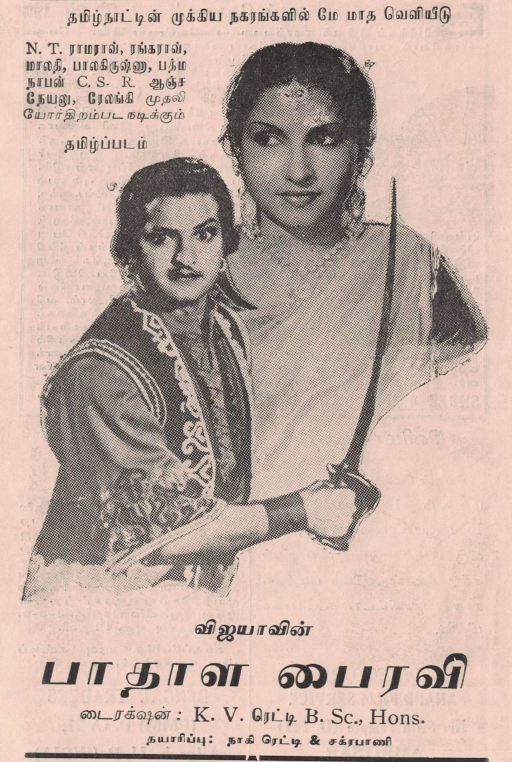 Poster for the 1951 South Indian Tamil film Pathala Bhairavi